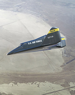 Deepcold dyna final 240, author: Dan Roam